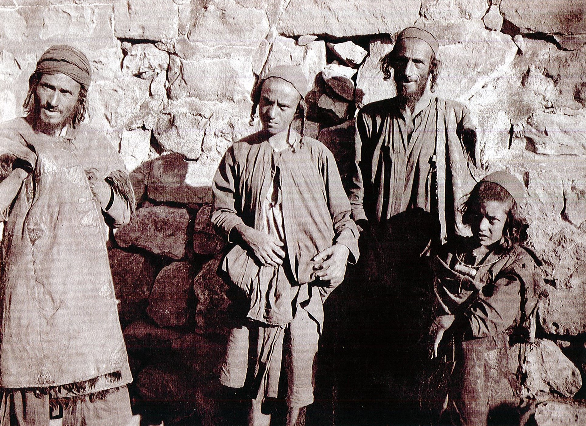 Photograph of Jews from the mountain village Maswar, in Northwest Yemen, in 1902